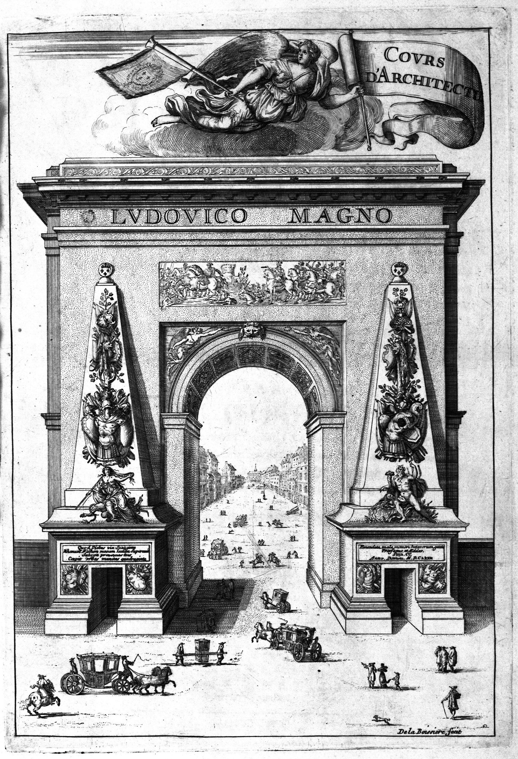 Engraving depicting the south face of the Porte Saint-Denis in Paris. Frontispiece of Francois Blondel's Cours d'Architecture, second edition. Paris, 1698. Also appeared in vol.1 of the first edition in 1675 [1].